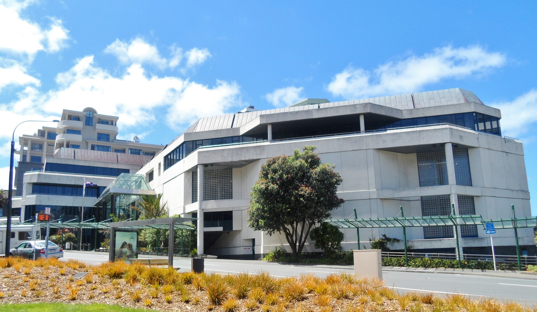 Wellington High Court in 2015.